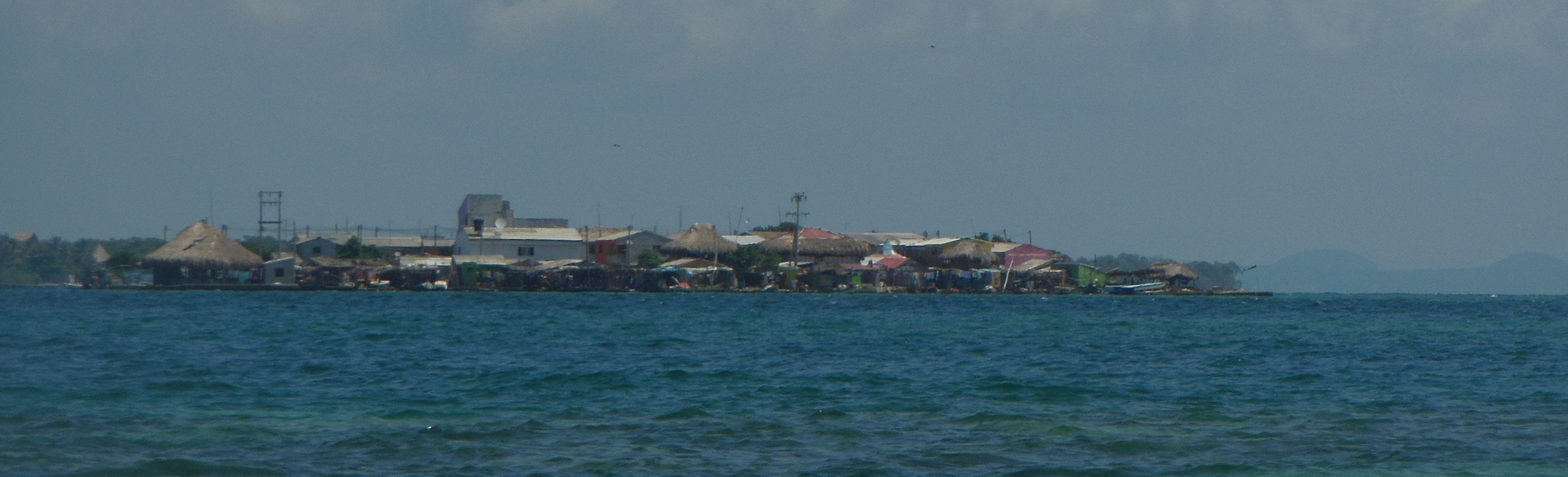 Santa Cruz del Islote with Tintipán island (left) and the Colombian Coastline (right) in the background, photo taken from Múcura